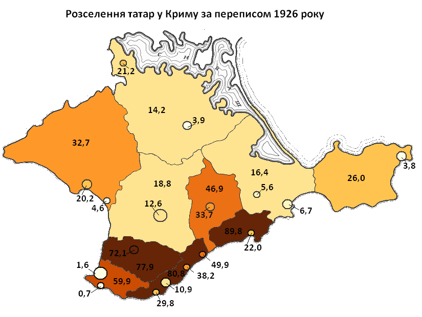 Percentage of Crimean tatars in Crimea according to 1926 census